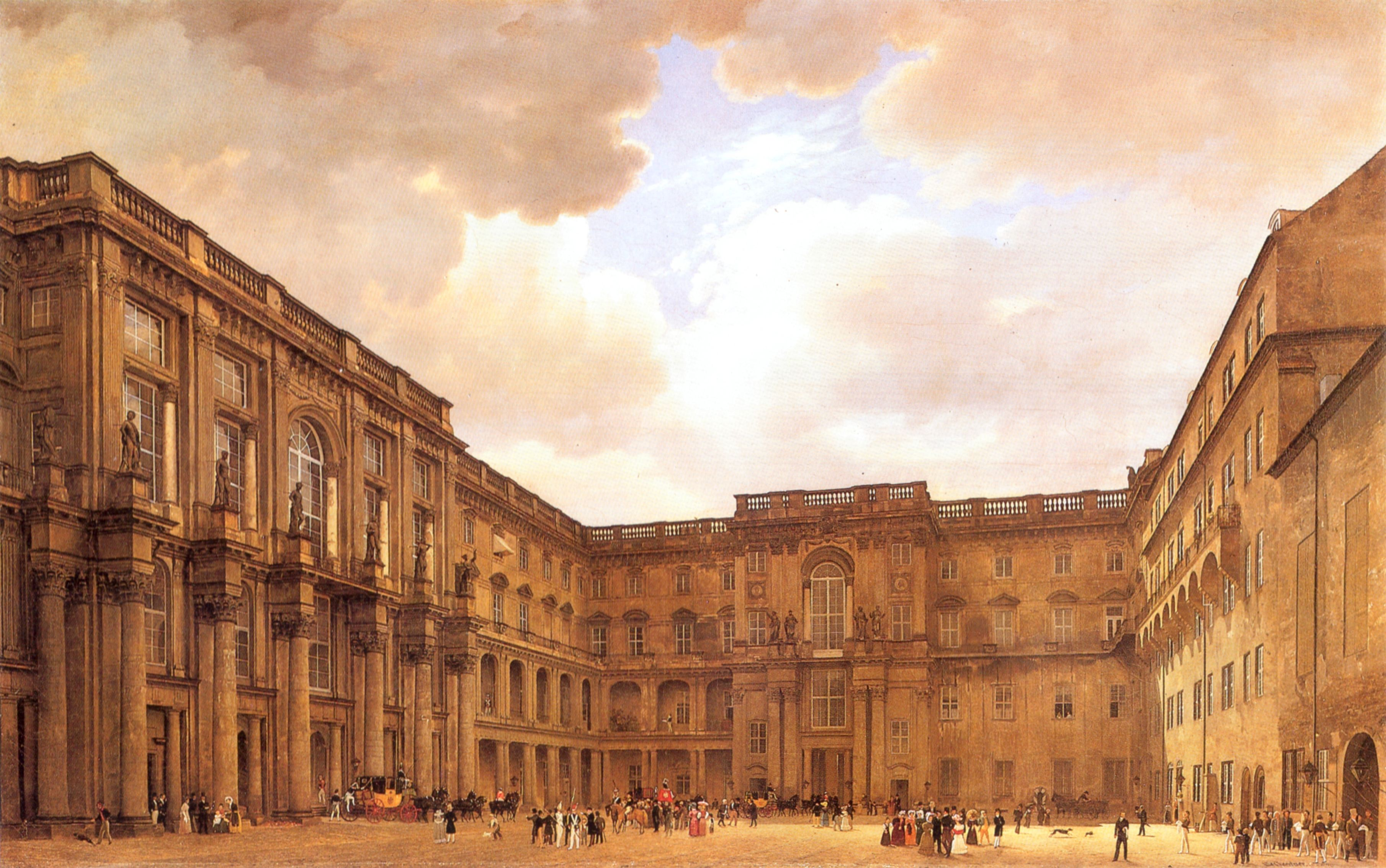 The so called "" in the "Stadtschloss Berlin" (main castle in Berlin, Germany), about 1830.